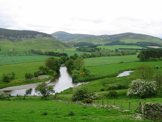 Confluence of the Biggar Water and Tweed. Looking across Tweeddale to Drumelzier Law, as the Tweed gathers the combined waters of the Biggar Water and Holm Water at the Old Washing Pool.